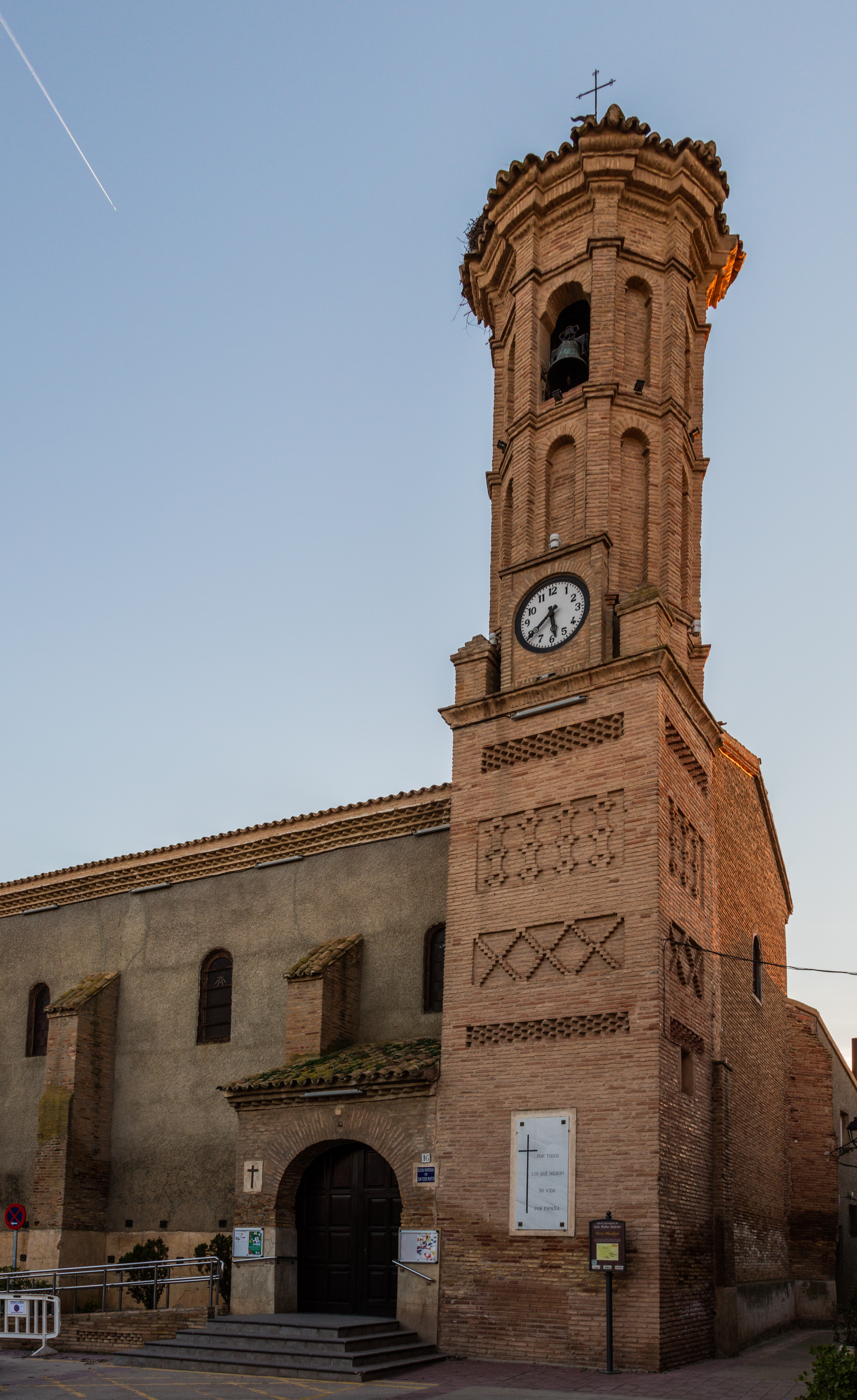 Church of St Peter Martyr of Verona, Pinseque, Saragossa, Spain